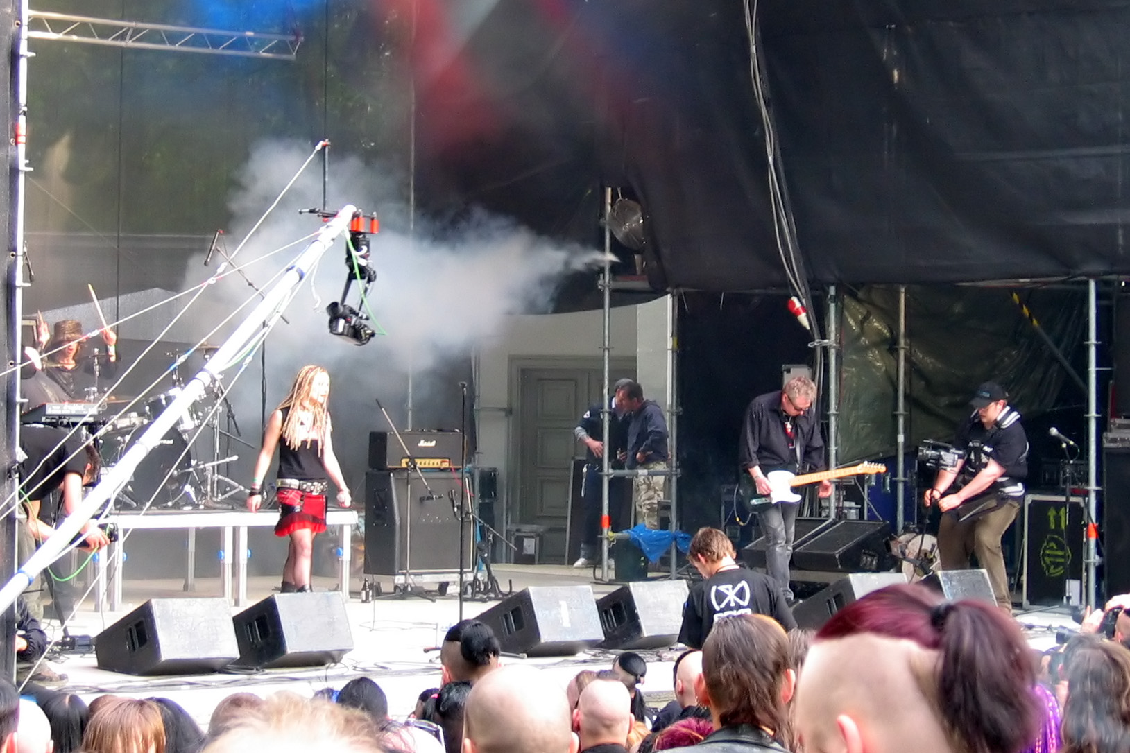 Skeletal Family